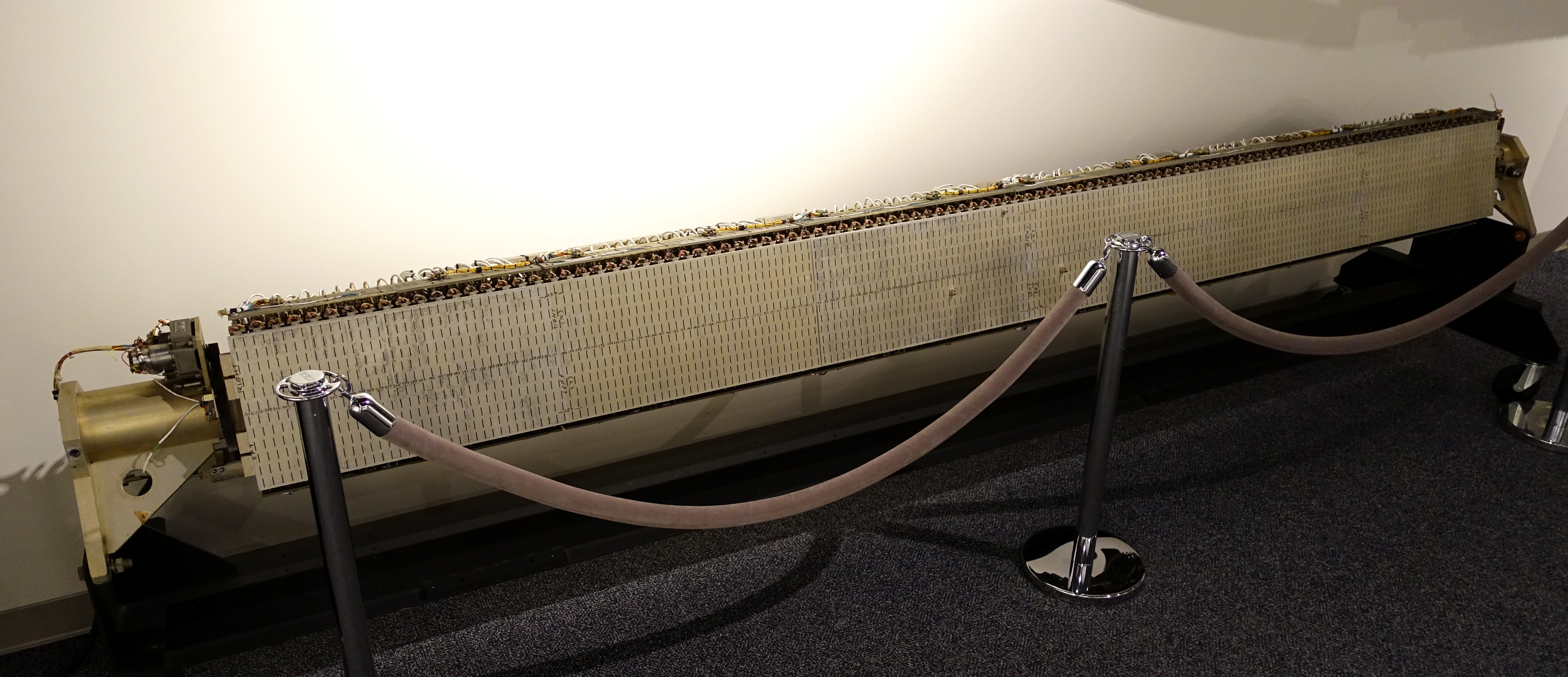 Exhibit in the National Electronics Museum, 1745 West Nursery Road, Linthicum, Maryland, USA. All items in this museum are unclassified. The museum permitted photography without restriction.